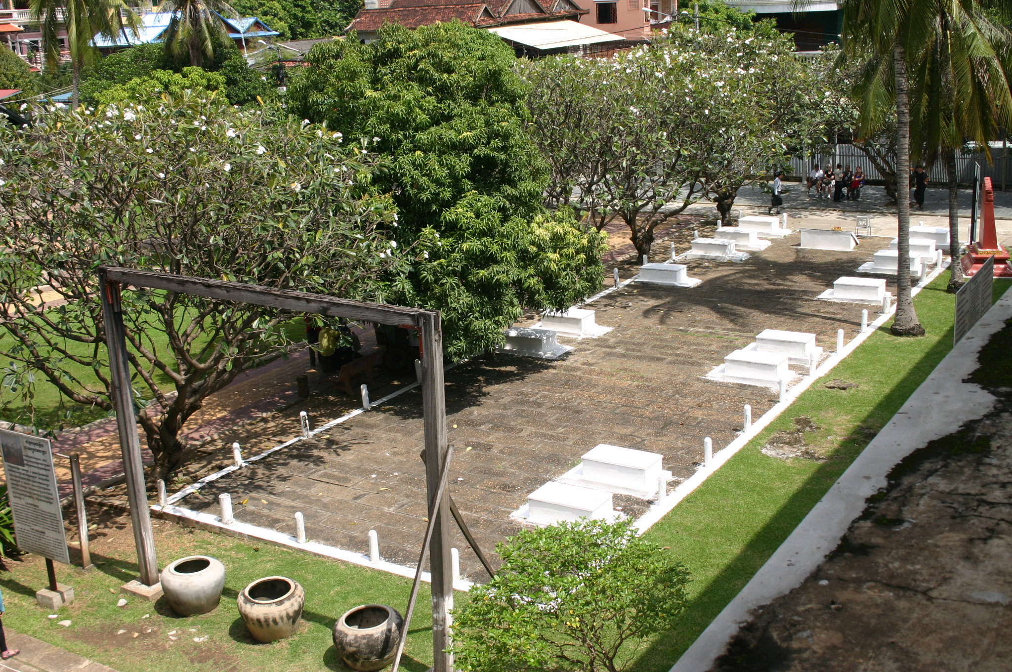 Graves of last victims in Tuol Sleng